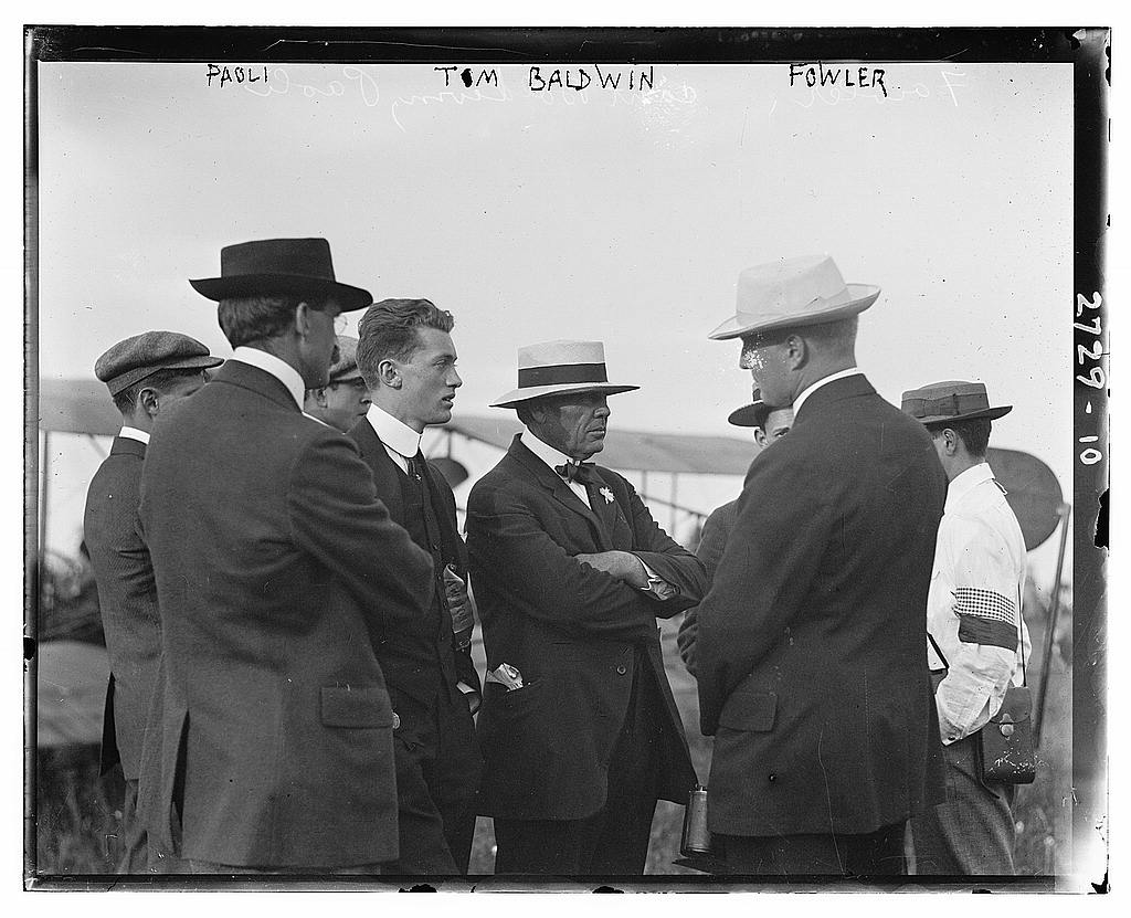 Cecil Peoli, Tom Baldwin, and Robert Fowler on October 3, 1913. Image from the Bain collection at the Library of Congress